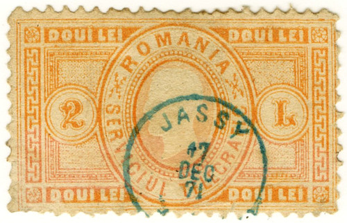 Romania 2L 1871 telegraph stamp used Jassy.